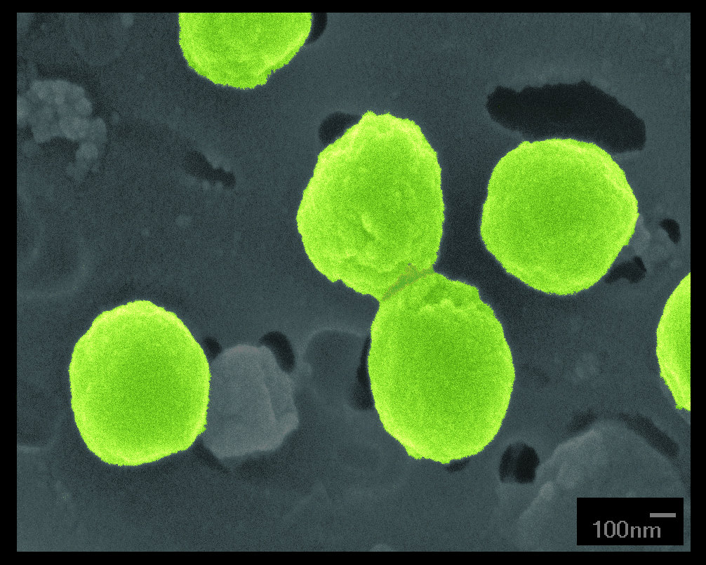 Taken by Anne Thompson, Chisholm Lab, MIT. SEM of MIT9215 Pseudo-colored. The Chisholm Lab gives you permission to use this image. This is the highest resolution image available.